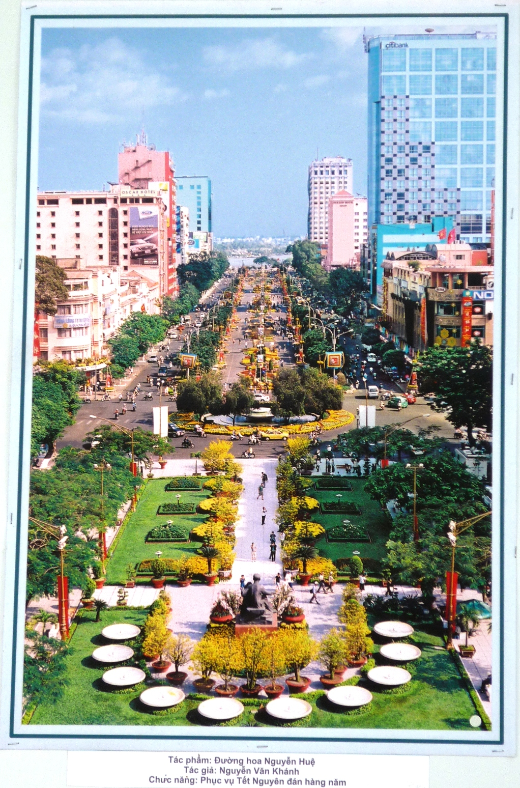 The picture of Nguyen Hue Flower Street